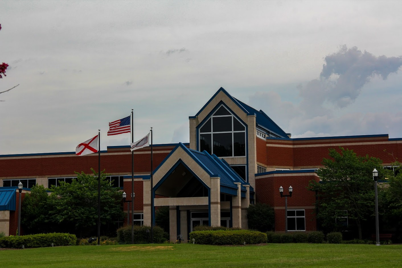 Gardendale Civic Center. July 14, 2015.